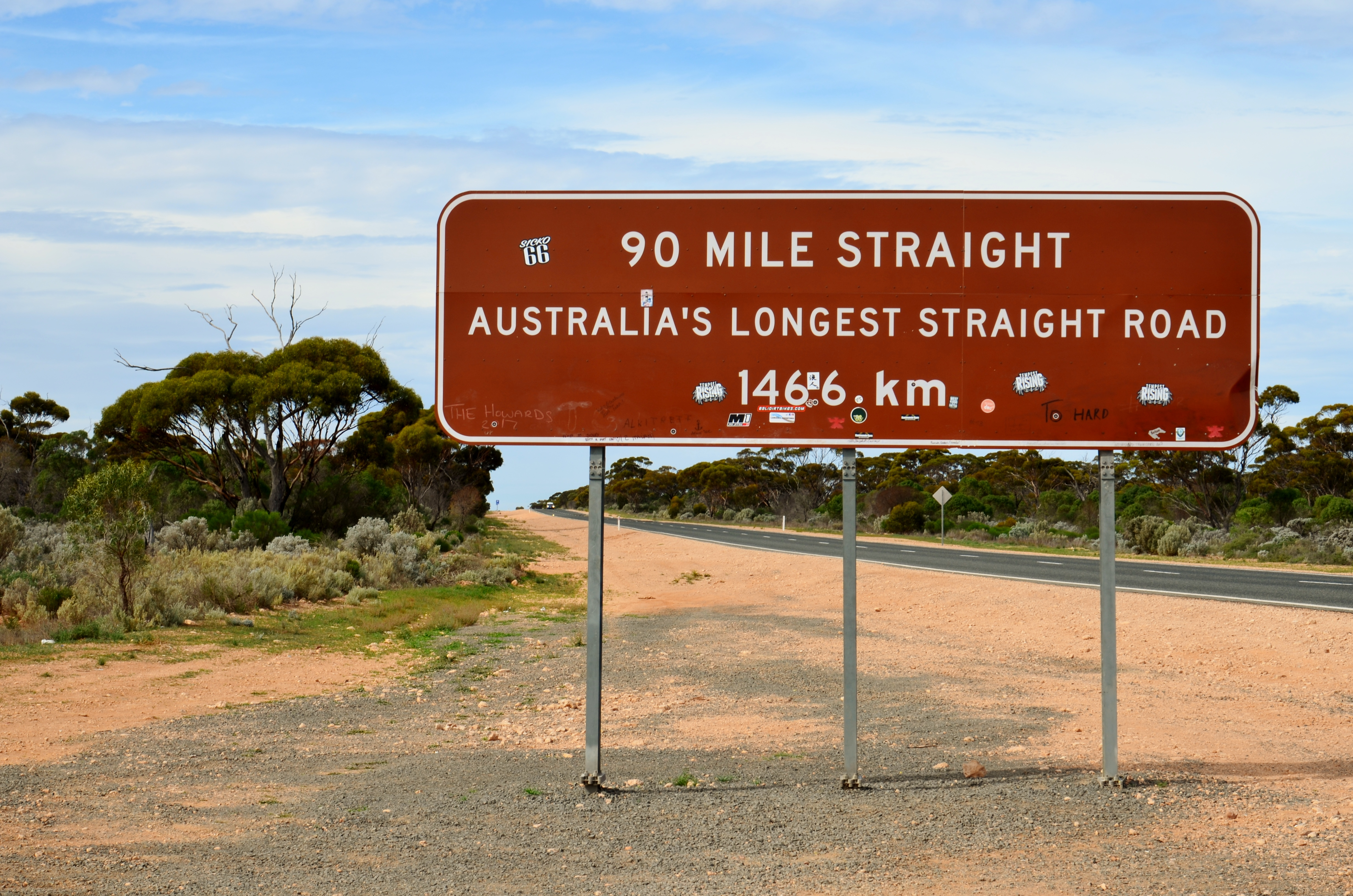 The sign marking the western end of the 90 Mile Straight, on Eyre Highway, Balladonia, Western Australia.